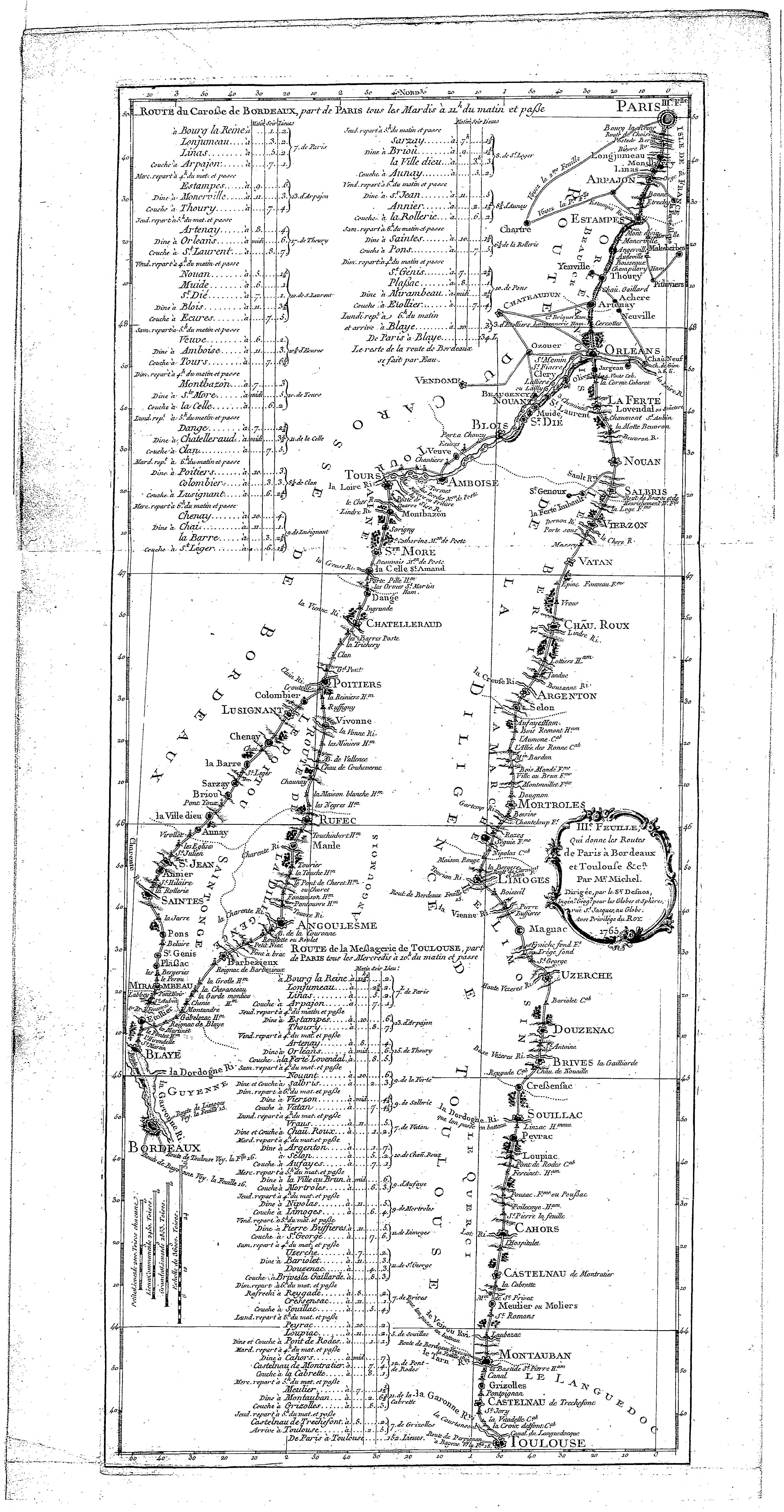 Desnos's map of Post roads in France (1765).